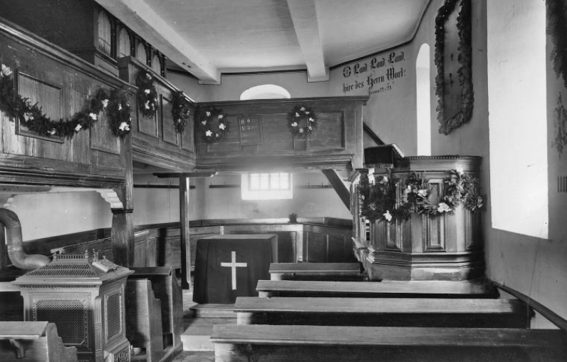 Protestant church in Lohfelden-Ochhausen before 1910